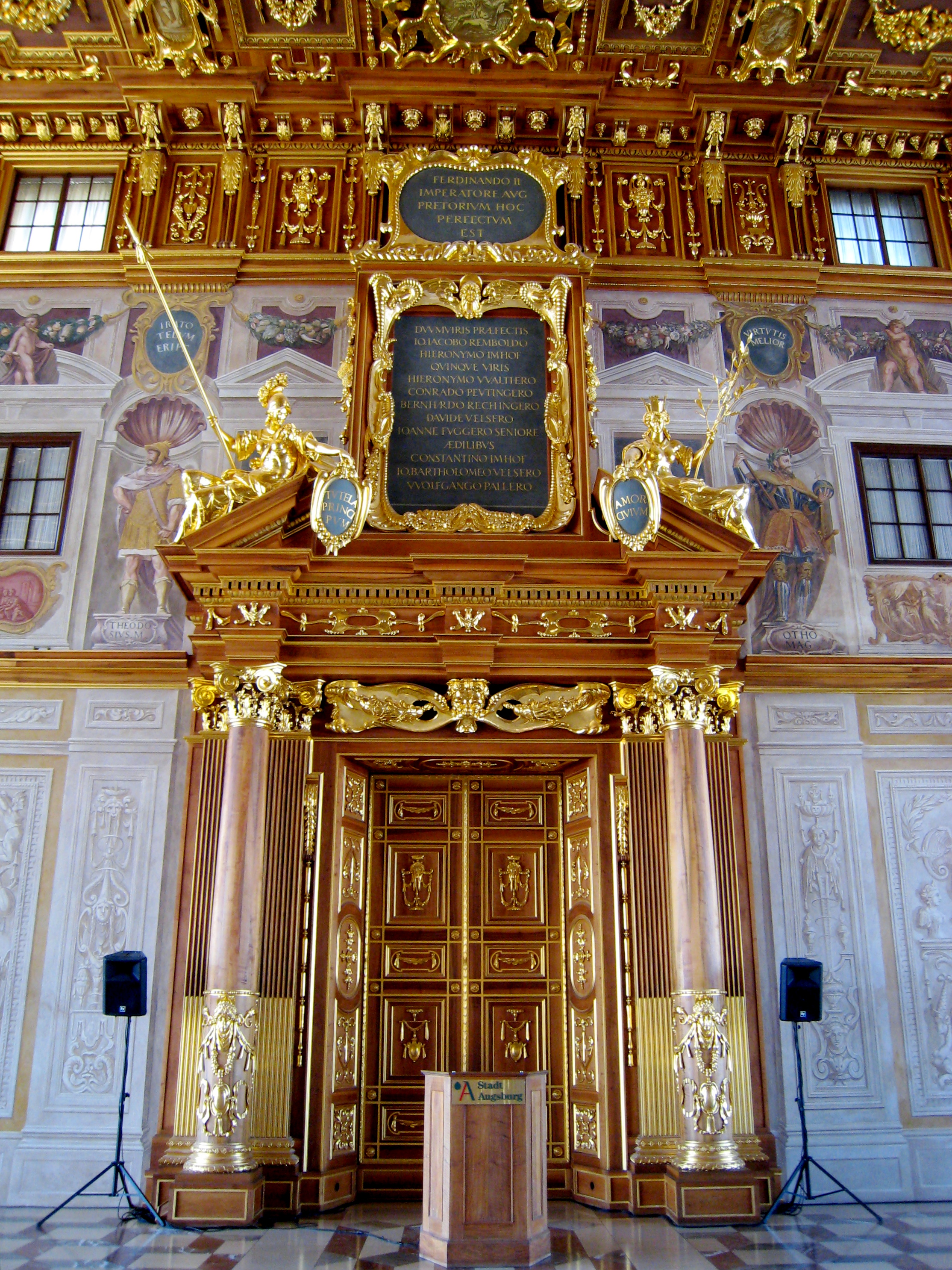 One of two major portals in the Goldener Saal in Augsburg's town hall